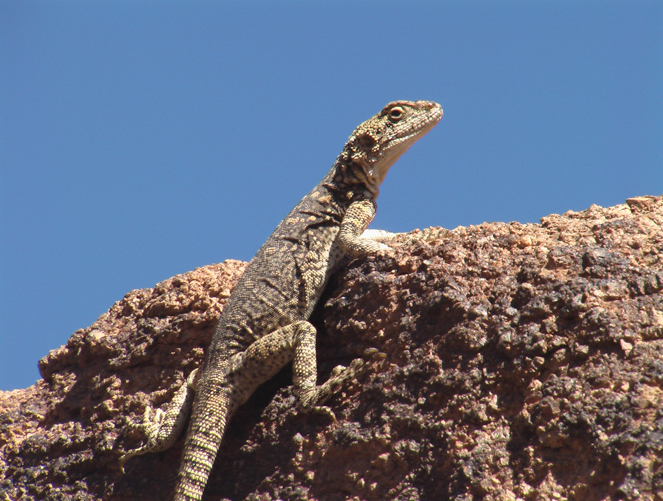 Laudakia stoliczkana, Eej Khairkhan Natural Monument, Tsogt sum, Govi-Altai province, North Gobi Desert, Mongolia in natural conditions